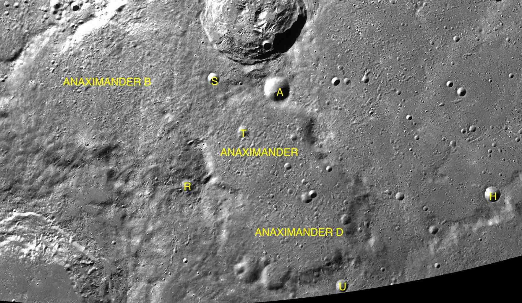 Part of the chart LAC-2 used for the presentation